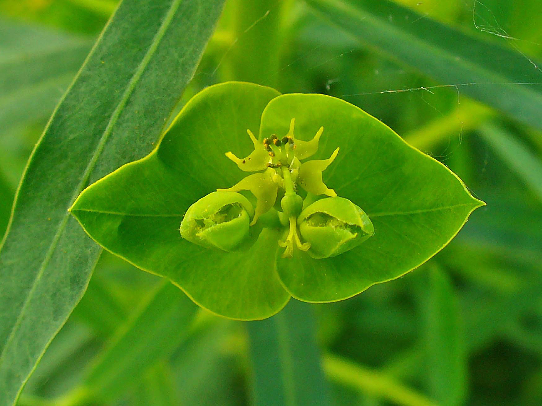 Euphorbia esula, Euphorbiaceae, Green Spurge, Leafy Spurge, cyathium. The plant is used in homeopathy as remedy: Euphorbia esula (Euph-e.)